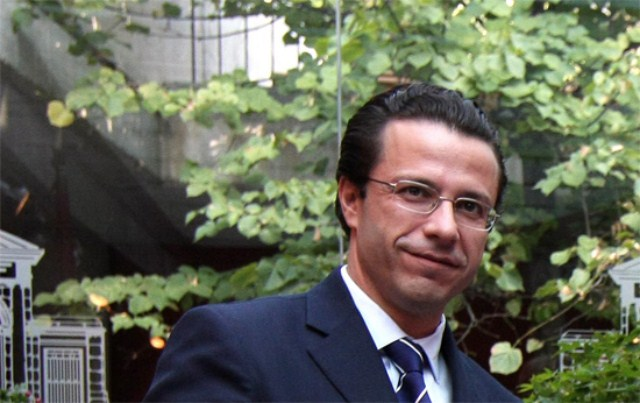 Spanish Politician Javier Fernández Lasquetty